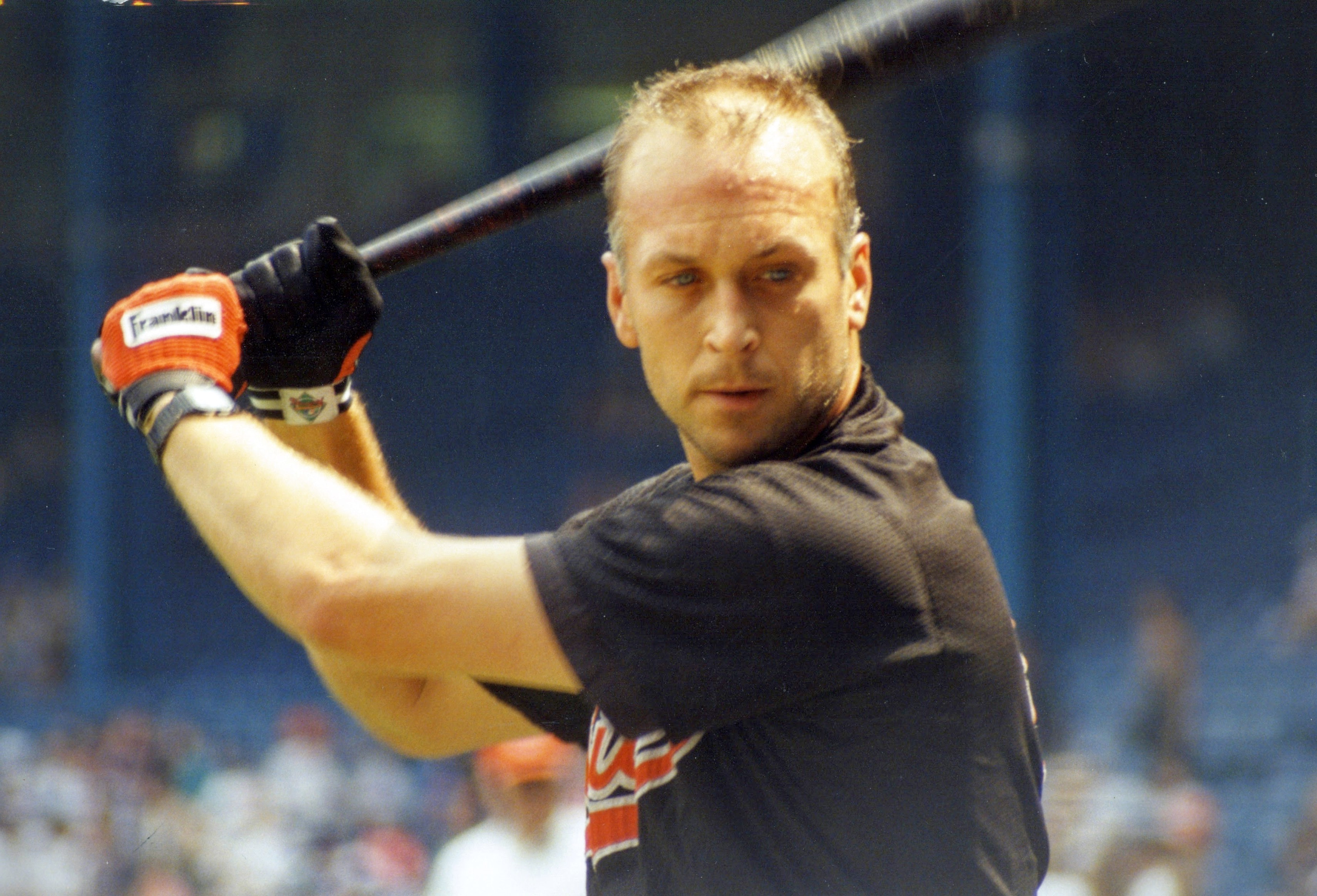 American professional baseball player Cal Ripken practices his swing before a game at Tiger Stadium in Detroit, Michigan, in 1993; by Rick Dikeman.